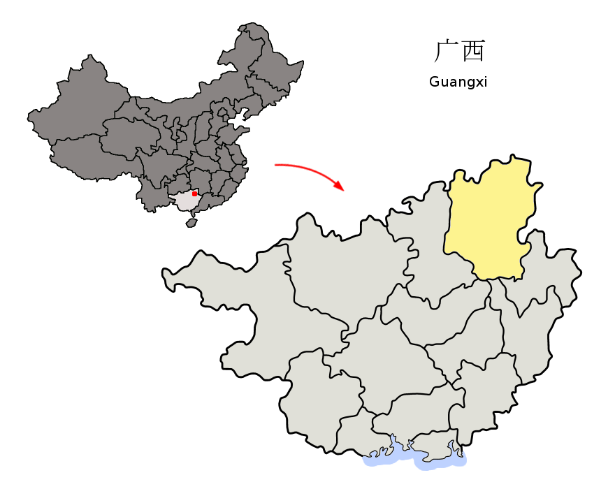 Location of Guilin Prefecture (yellow) within Guangxi Autonomous Region of China Map drawn in november 2007 using various sources, mainly : Guangxi Autonomous Region administrative regions GIS data: 1:1M, County level, 1990 Guangxi Counties map from